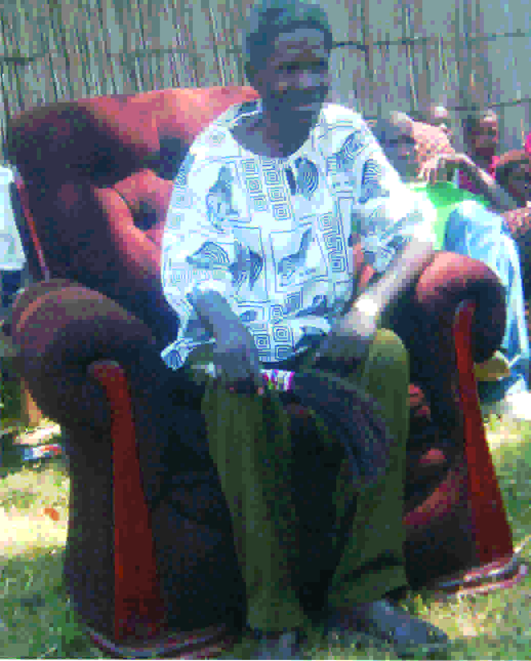 Chief Mwene Sikufele Akatoka Thompson during his Mbunda Lukwakwa Traditional Ceremony in the year 2011, at his palace in Manyinga, Kabompo District, Northwestern Province of Zambia